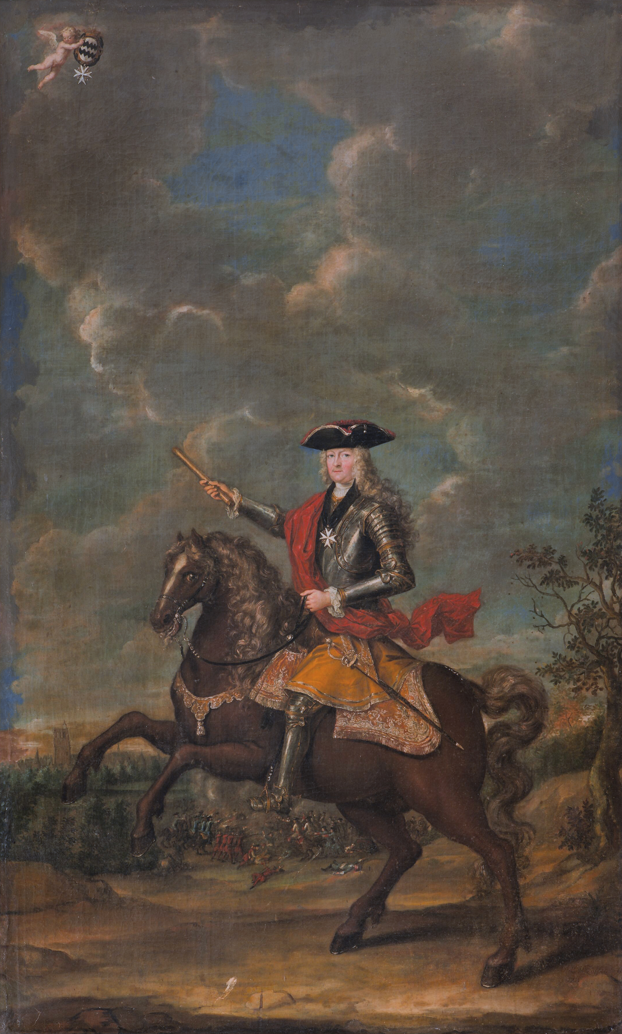 Reinhard van Reede Ginkel (1678-1747) oil on cavas 158 x 96 cm signed b.r.: M.A.L. Clifford 1726